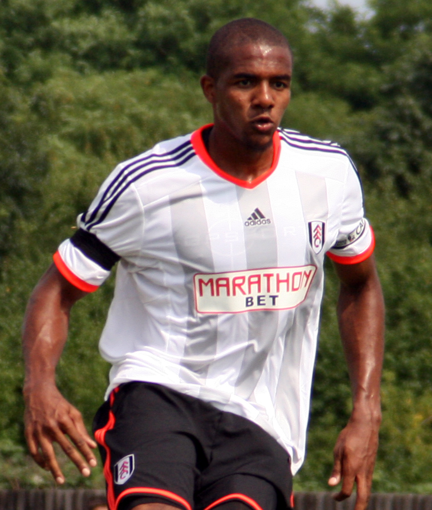 Stephen Arthurworrey in action for Fulham in July 2014.